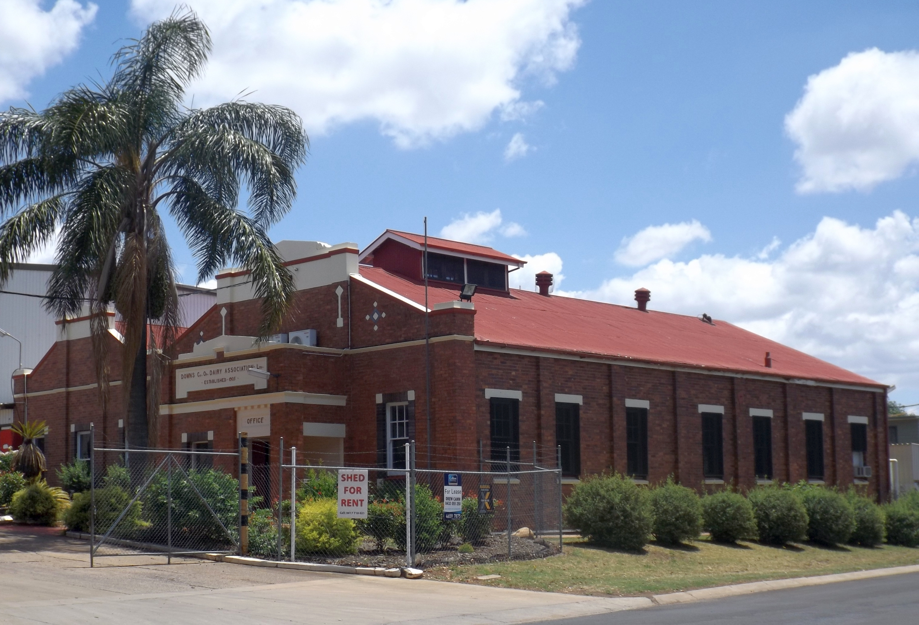 Photo of office building at the Downs Co-operative Dairy Association Limited Factory in Newtown, Toowoomba, Queensland, Australia.